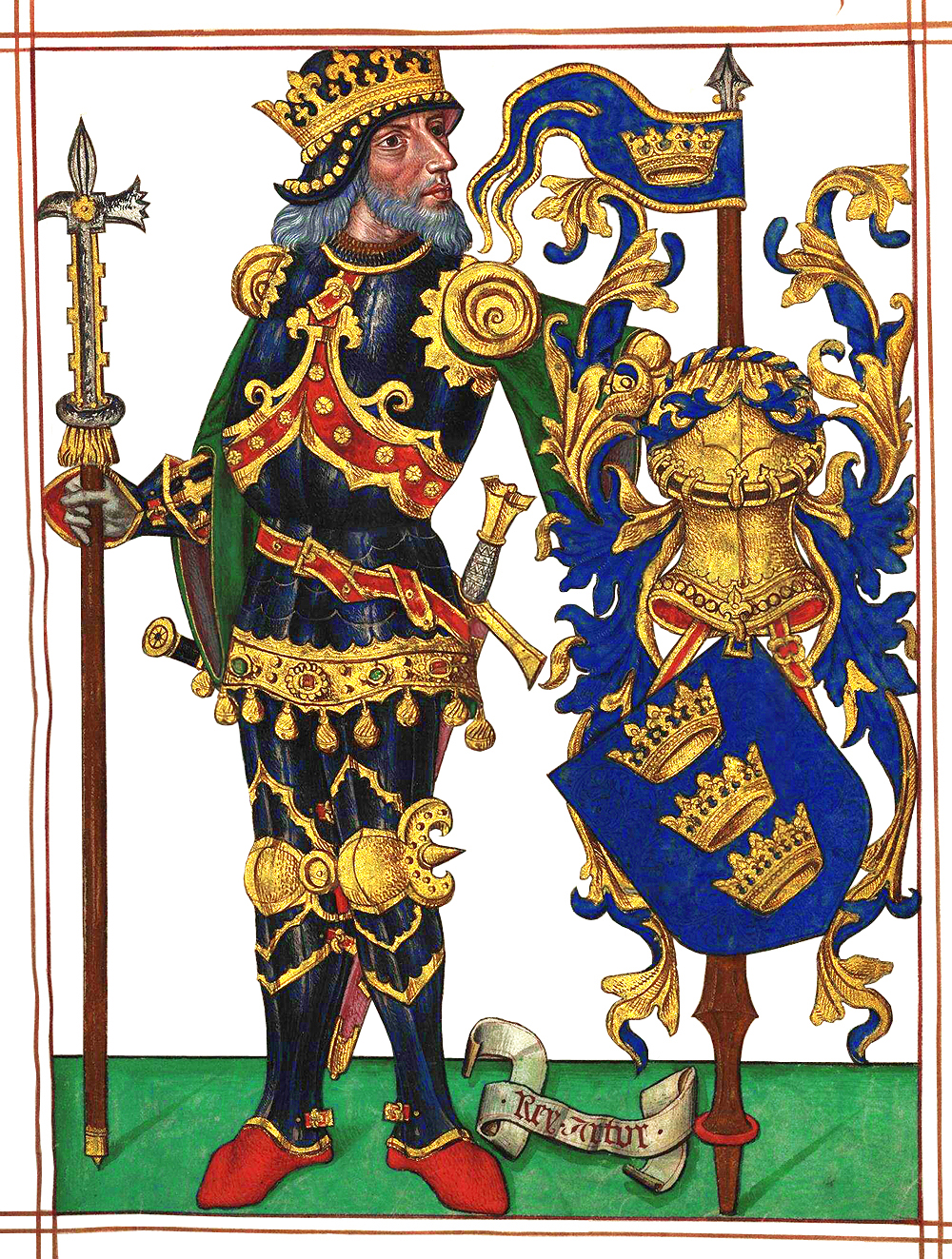 King Arthur